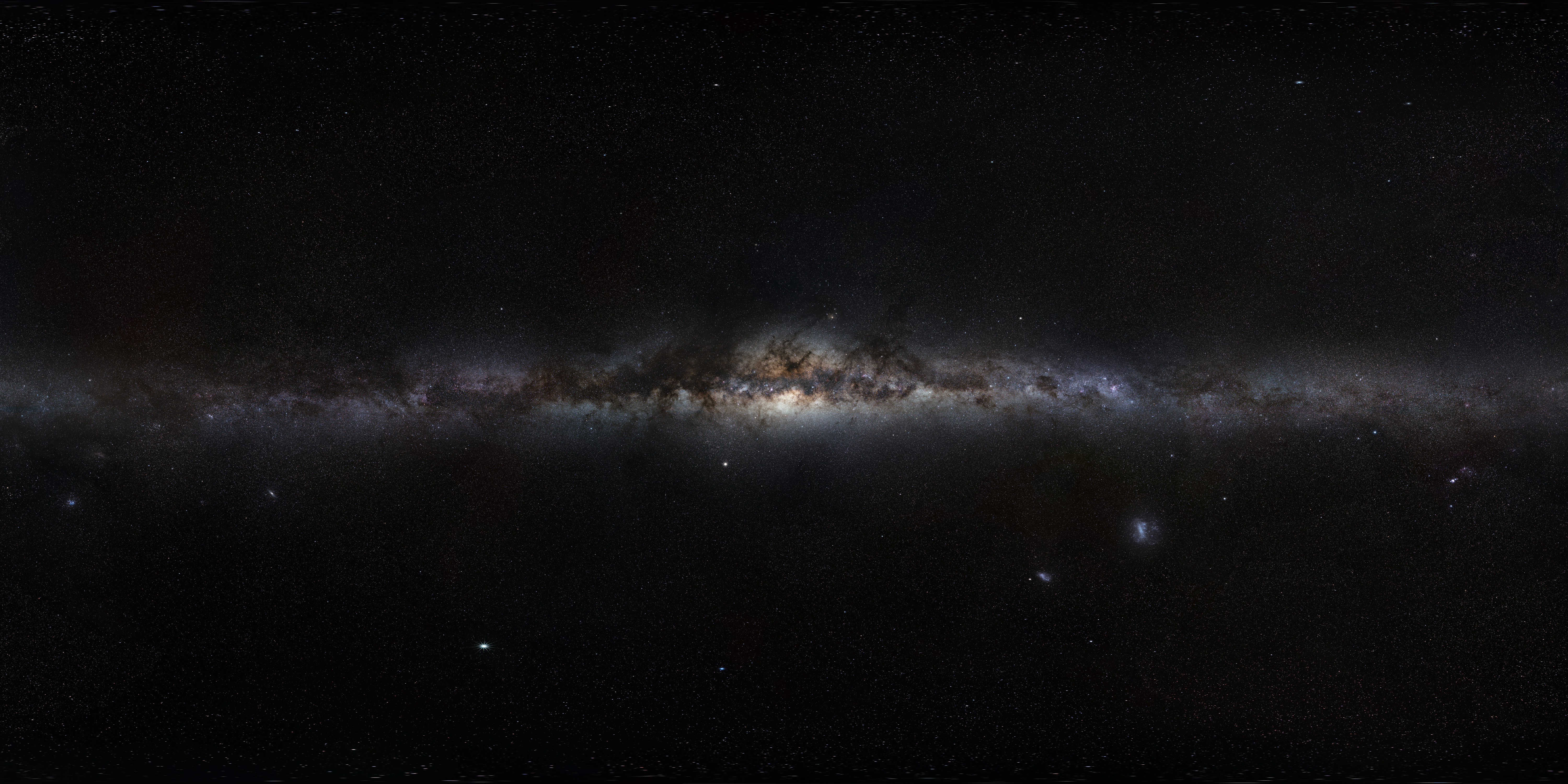 This magnificent 360-degree panoramic image, covering the entire southern and northern celestial sphere, reveals the cosmic landscape that surrounds our tiny blue planet. This gorgeous starscape serves as the first of three extremely high-resolution images featured in the GigaGalaxy Zoom project, launched by the European Southern Observatory within the framework of the International Year of Astronomy 2009 (IYA2009). The plane of our Milky Way Galaxy, which we see edge-on from our perspective on Earth, cuts a luminous swath across the image. The projection used in GigaGalaxy Zoom places the viewer in front of our Galaxy with the Galactic Plane running horizontally through the image — almost as if we were looking at the Milky Way from the outside. From this vantage point, the general components of our spiral galaxy come clearly into view, including its disc, marbled with both dark and glowing nebulae, which harbours bright, young stars, as well as the Galaxy’s central bulge and its satellite galaxies. Photography primarily took place at the ESO observatories at La Silla and Paranal in Chile, with additional photography at La Palma in the Canary Islands. The final panoramic image condenses 120 hours of observations spread over several weeks.[1]